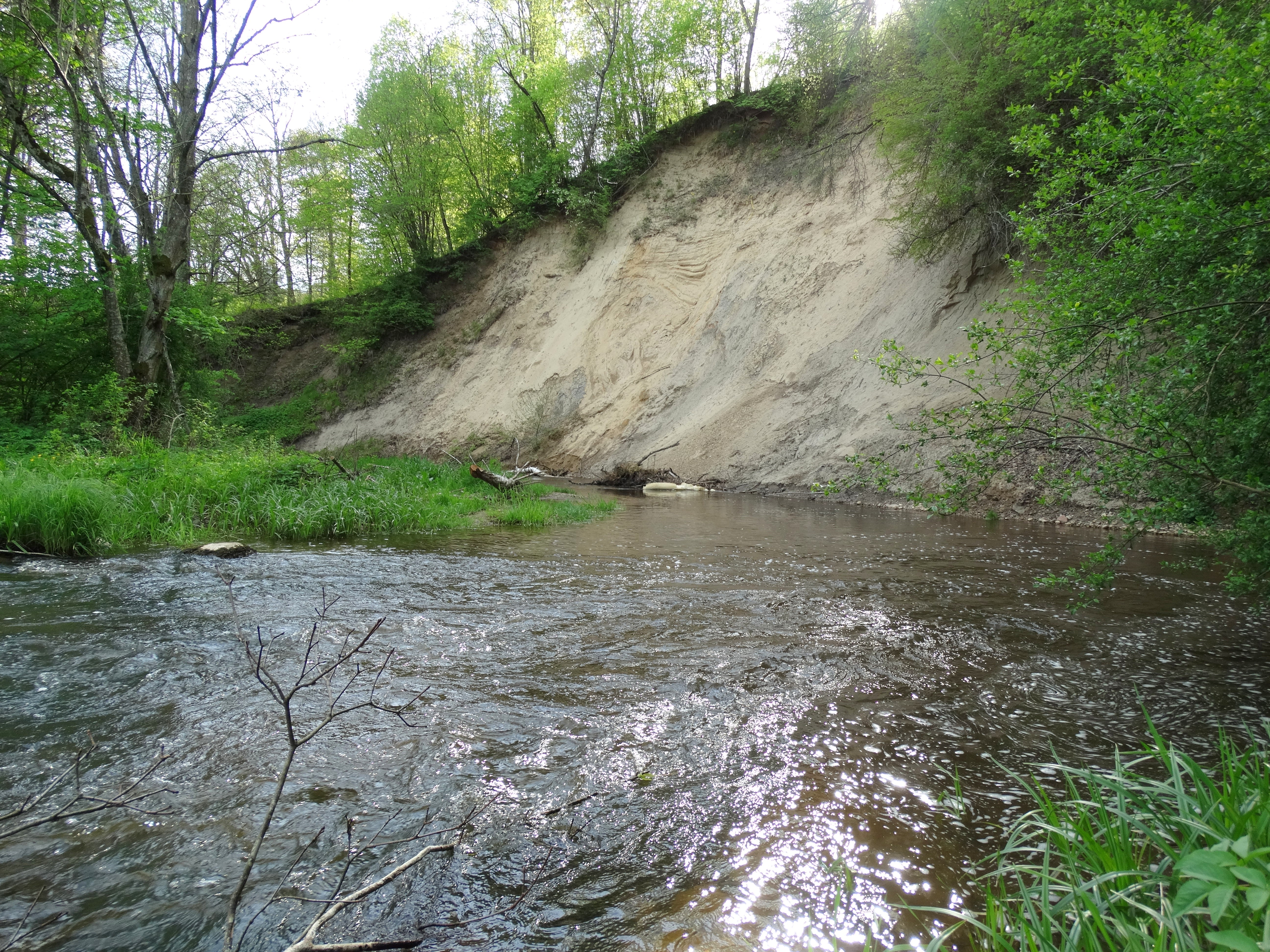 Karmazinai outcrop, Dūkšta river, Vilnius District, Lithuania